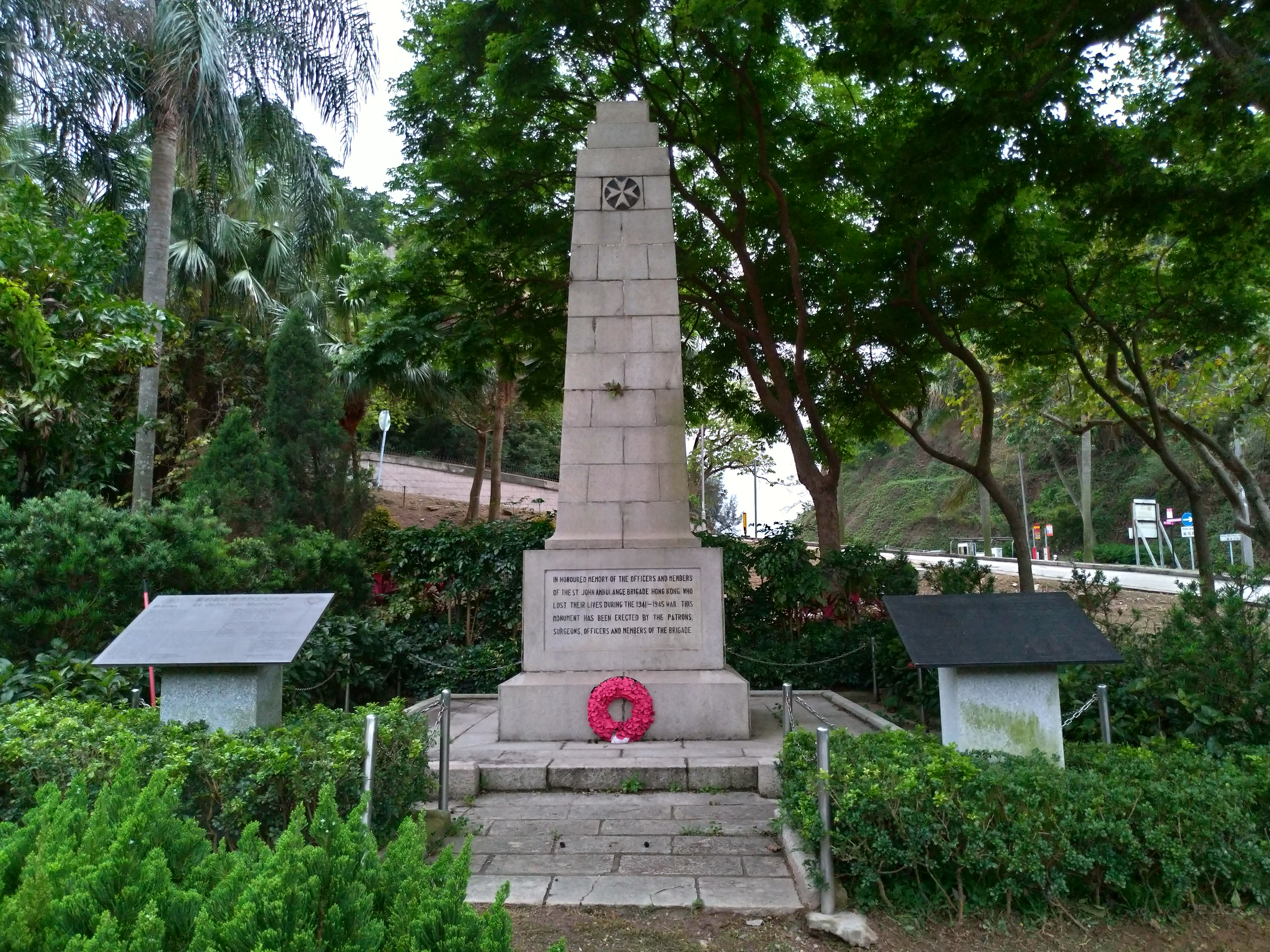 The memorial of St. John at Wong Nai Chung Gap on Hong Kong Island.